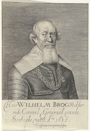 Engraving of Sir William Brog by Crispjen van den Queborn (1635).